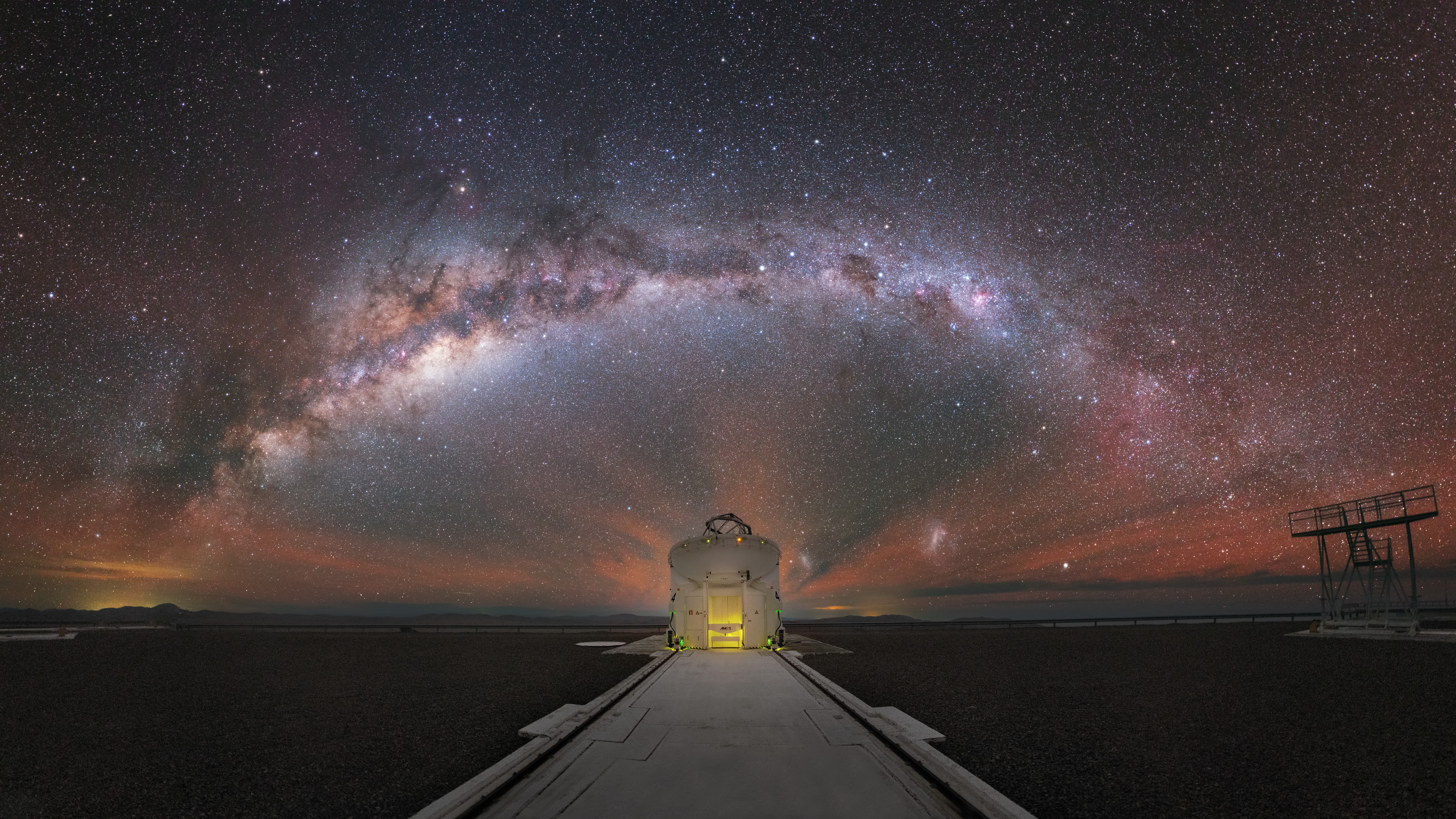 This beautiful image shows the dense heart of the Milky Way stretched out above one of the Auxiliary Telescopes of ESO's Very Large Telescope (VLT). Such dark and star-studded skies are typical of the VLT’s location in the Chilean Atacama Desert, which offers spectacular views such as this night after night for all of the site’s astronomers, visitors, and staff to enjoy. The VLT is made up of four large Unit Telescopes, and four smaller and movable Auxiliary Telescopes (one of which is shown here). These eight telescopes observe the cosmos both individually and as a team from various orientations and positions, allowing astronomers to study all manner of cosmic objects and phenomena in greater detail than ever before. The array has stimulated a new age of discoveries, with several notable scientific firsts — including the first image of a planet orbiting another star (known as an extrasolar planet or exoplanet), and tracking individual stars moving around the supermassive black hole at the centre of the Milky Way (an object named Sagittarius A*).